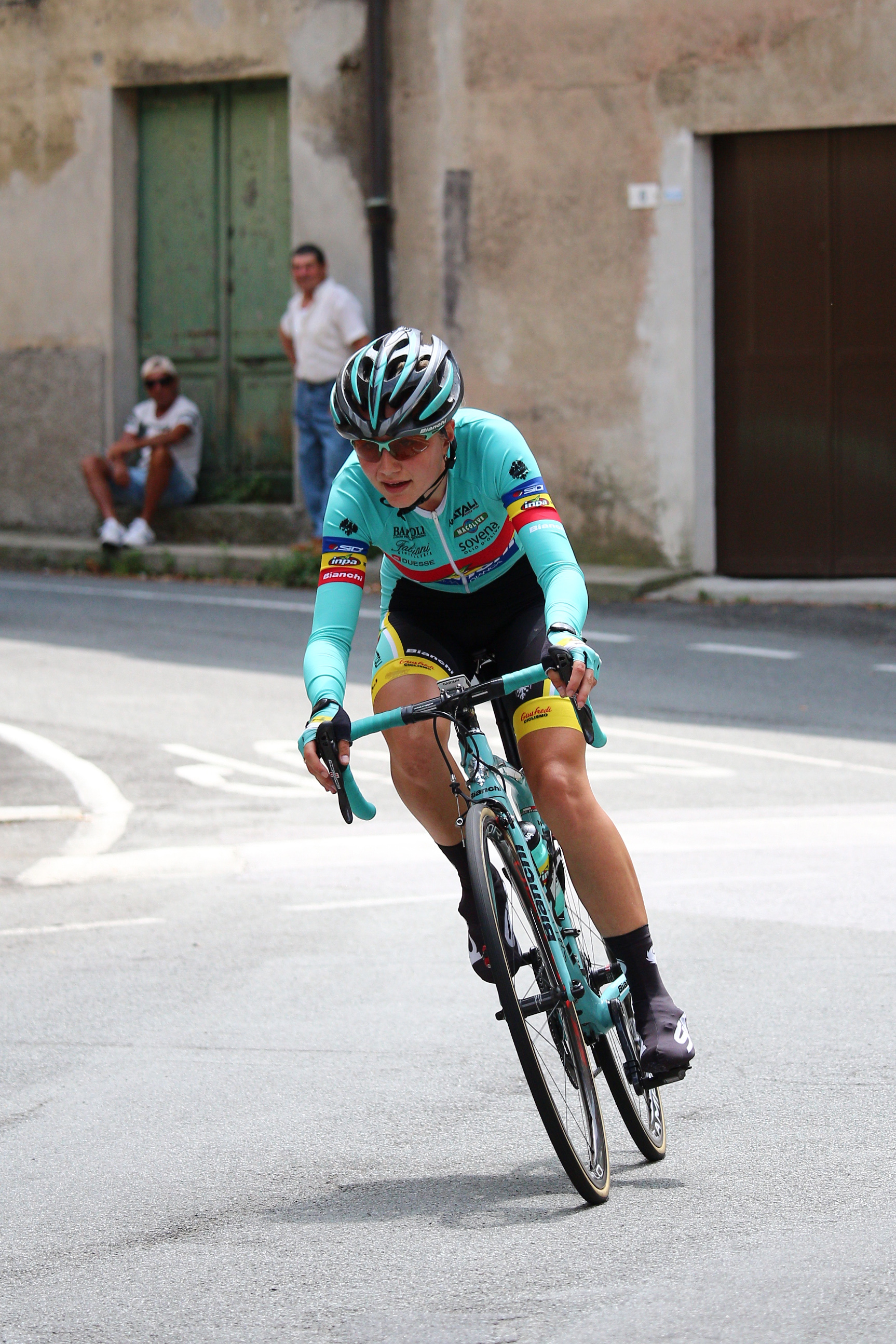 Ana Maria Covrig during the 7th stage of Giro Rosa 2016 in Stella San Martino